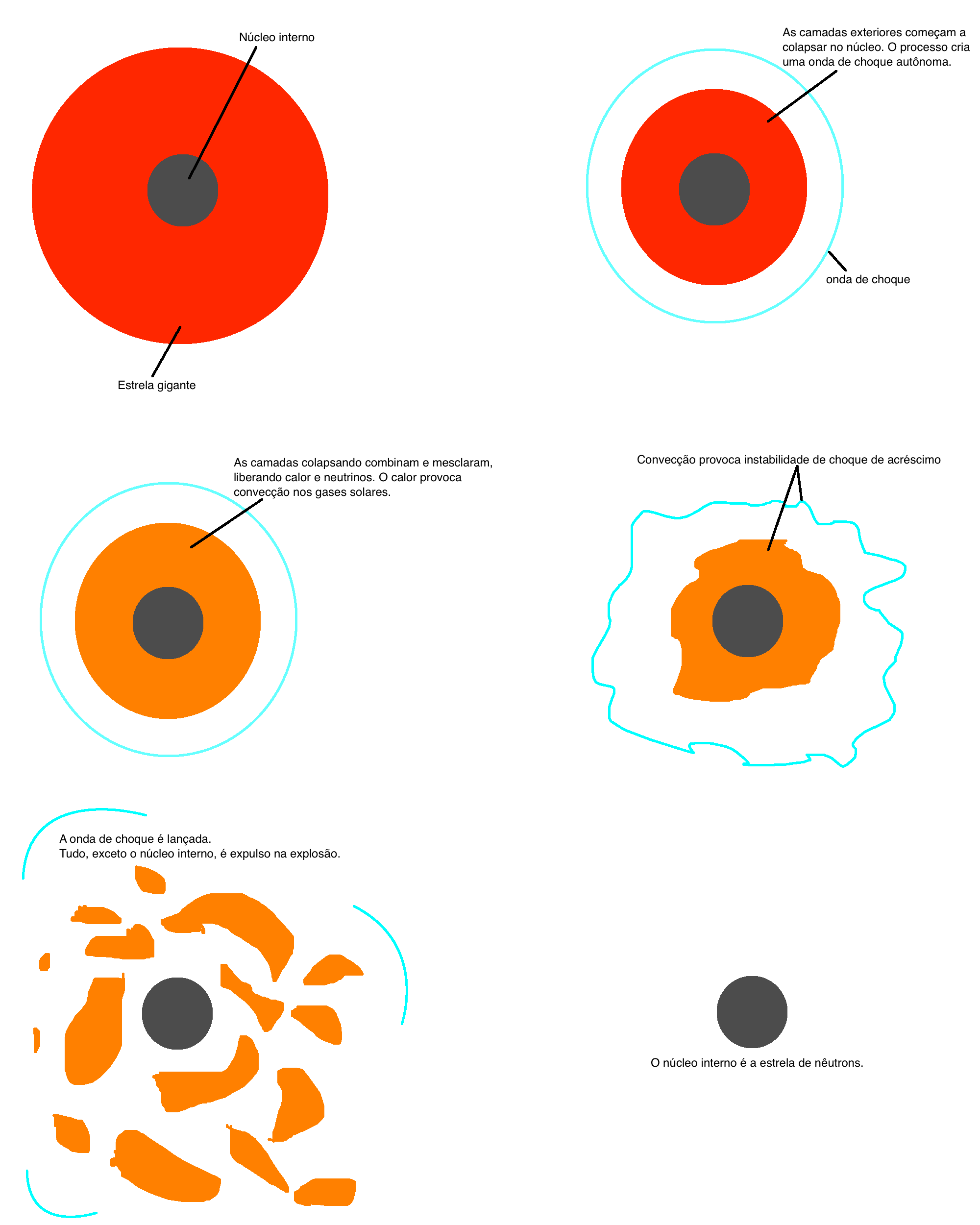 Portuguese version